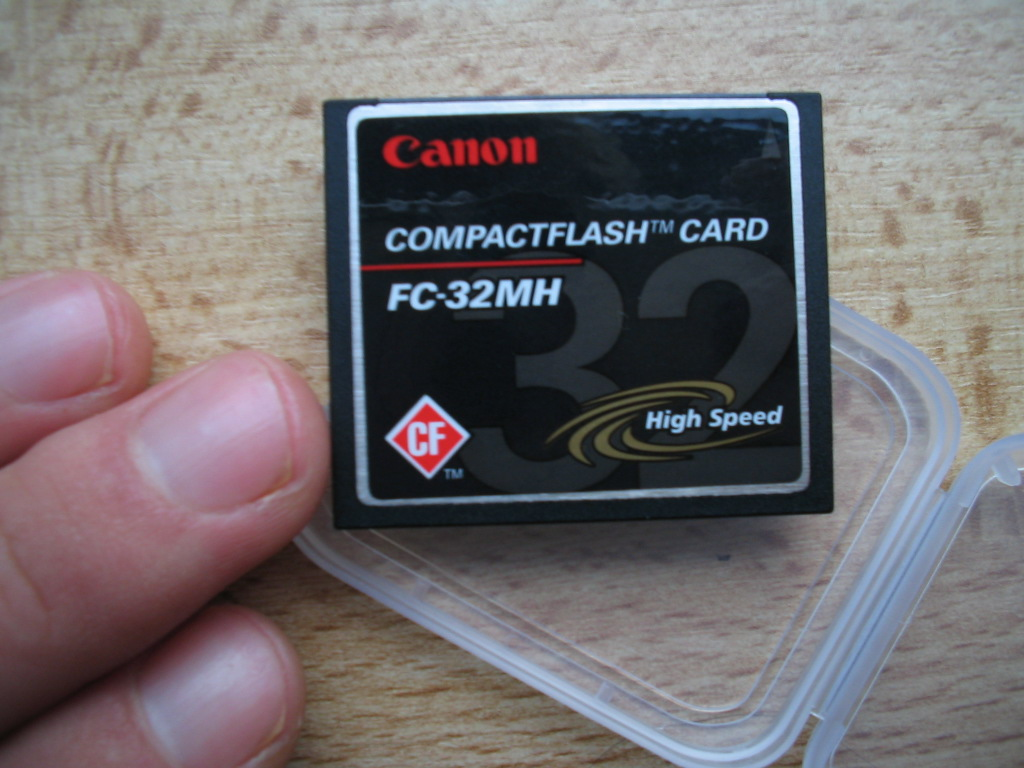 Compact flash memory